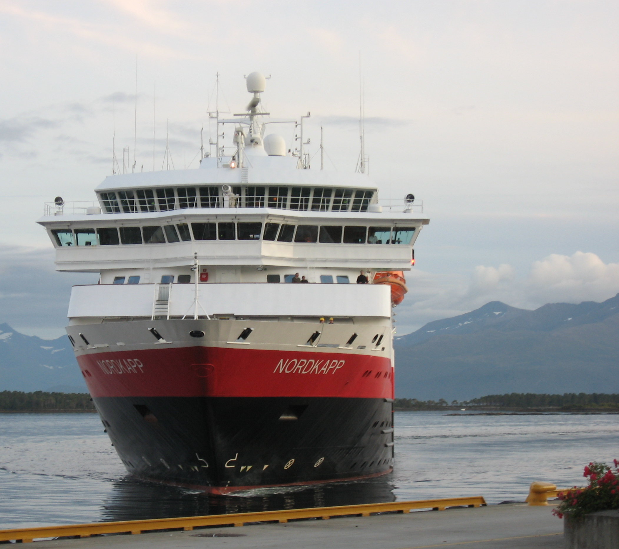 Norwegian coastal express (Hurtigruten) MS Nordkapp in Molde